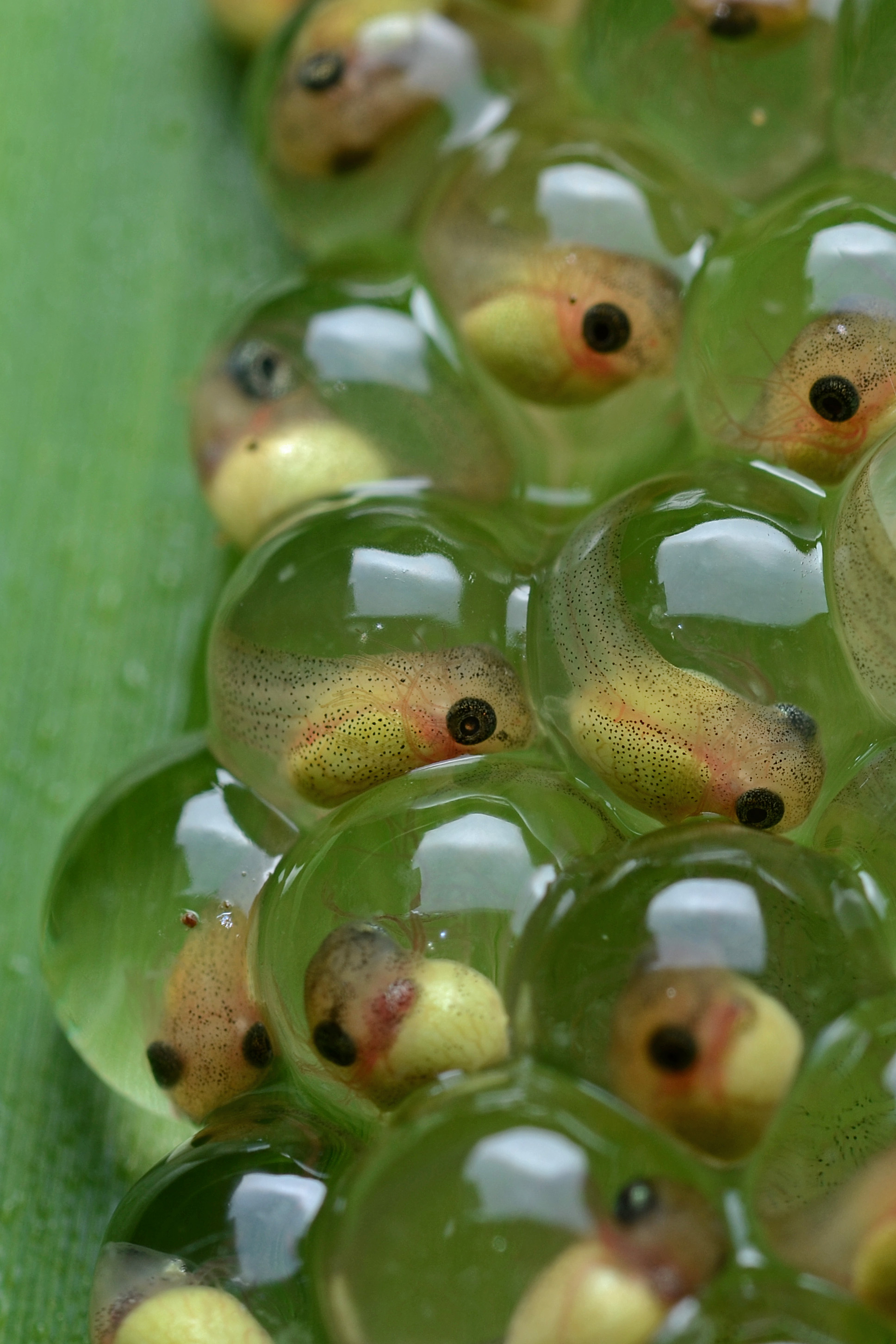 Agalychnis callidryas tadpoles - image taken in La Selva Biological Station